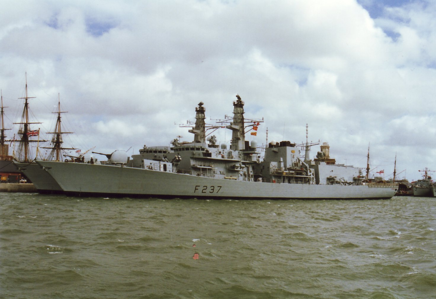 The HMS Westminster (foreground) and the HMS Iron Duke, Type 23 frigates of the Royal Navy, in the naval base of Portsmouth.